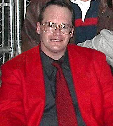 Jim Cornette at an autograph signing. Picture taken by User:Chrysaor.